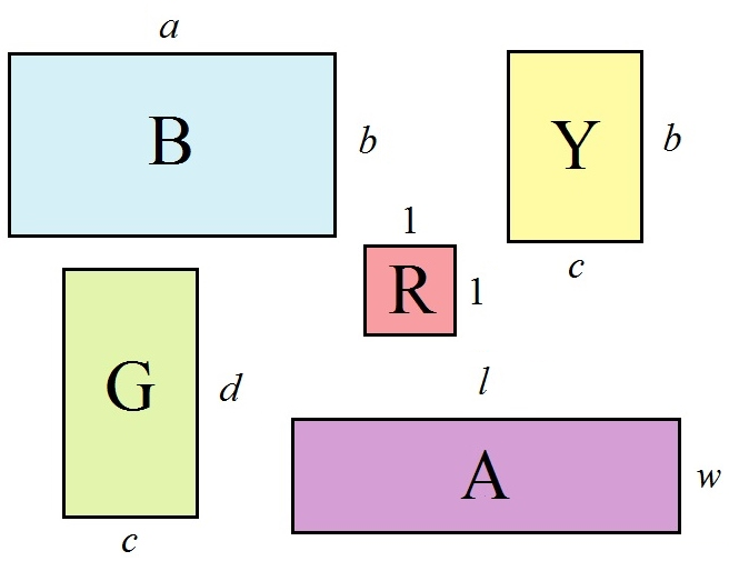 Proof of the area formula of rectangle